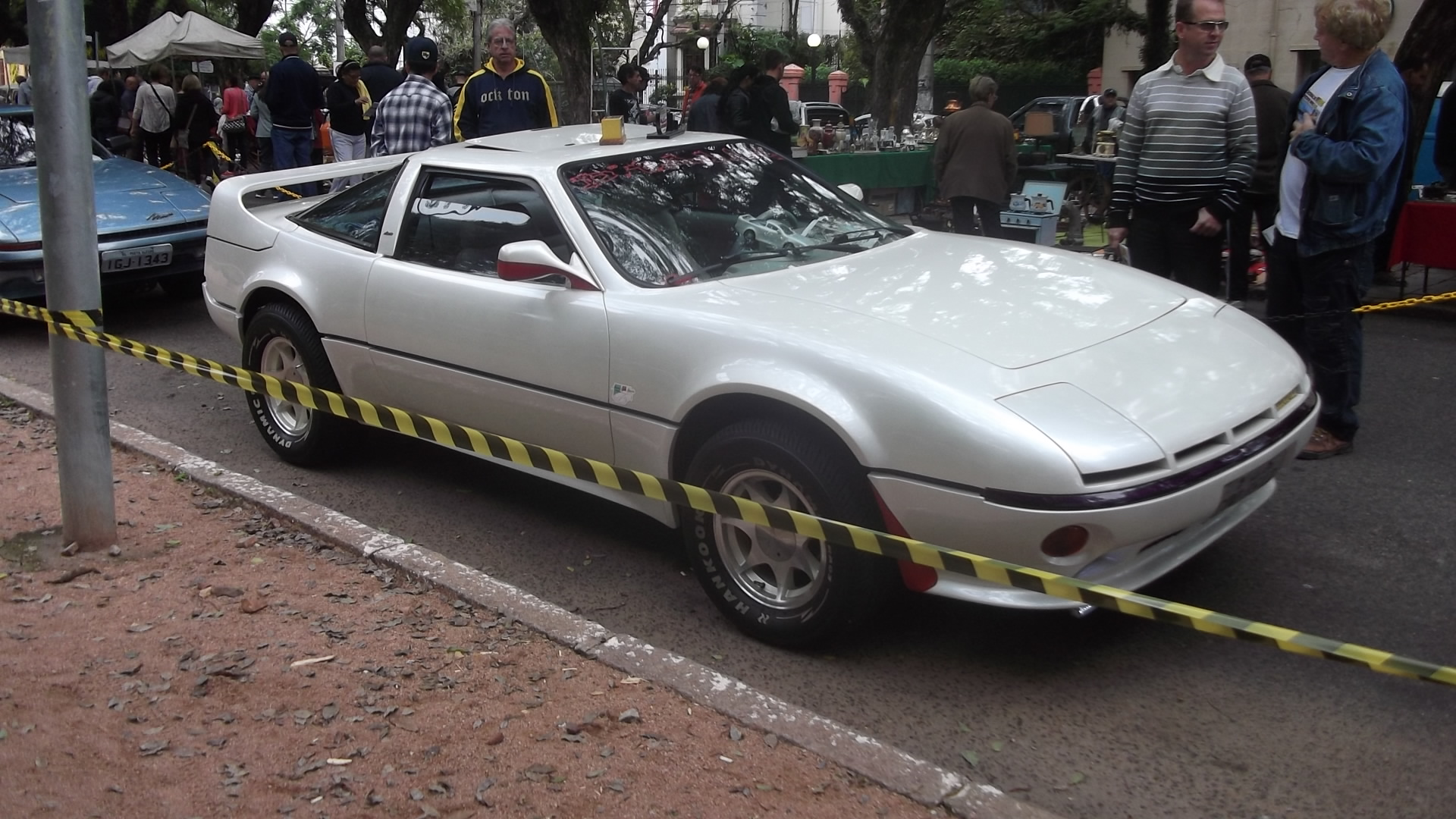 1989-1992 Miura Top Sport